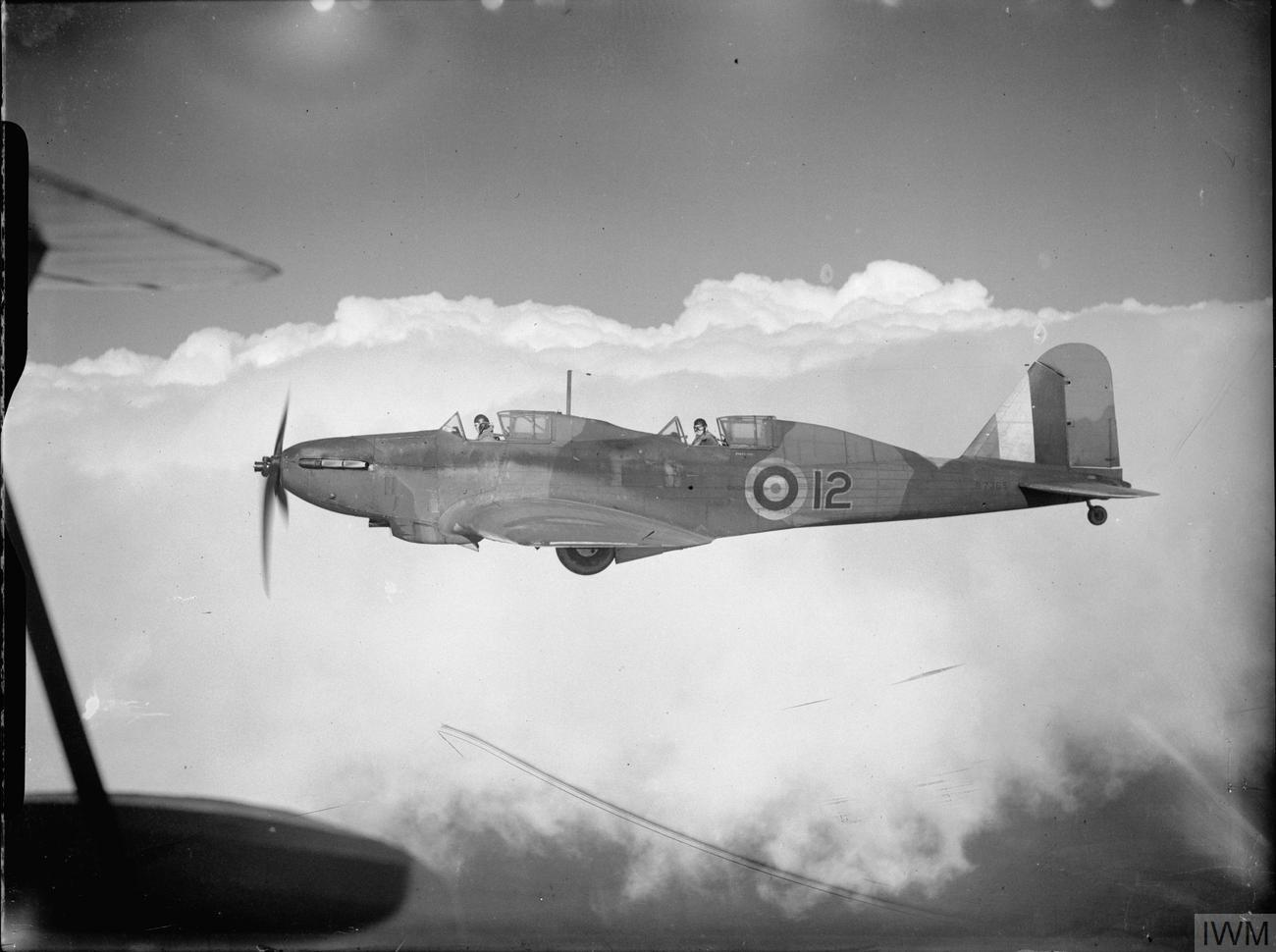 Aircraft of the Royal Air Force 1939-1945- Fairey Battle Battle Trainer, R7365 ‘12’, of No. 1 Service Flying Training School based at Netheravon, Wiltshire, in flight.